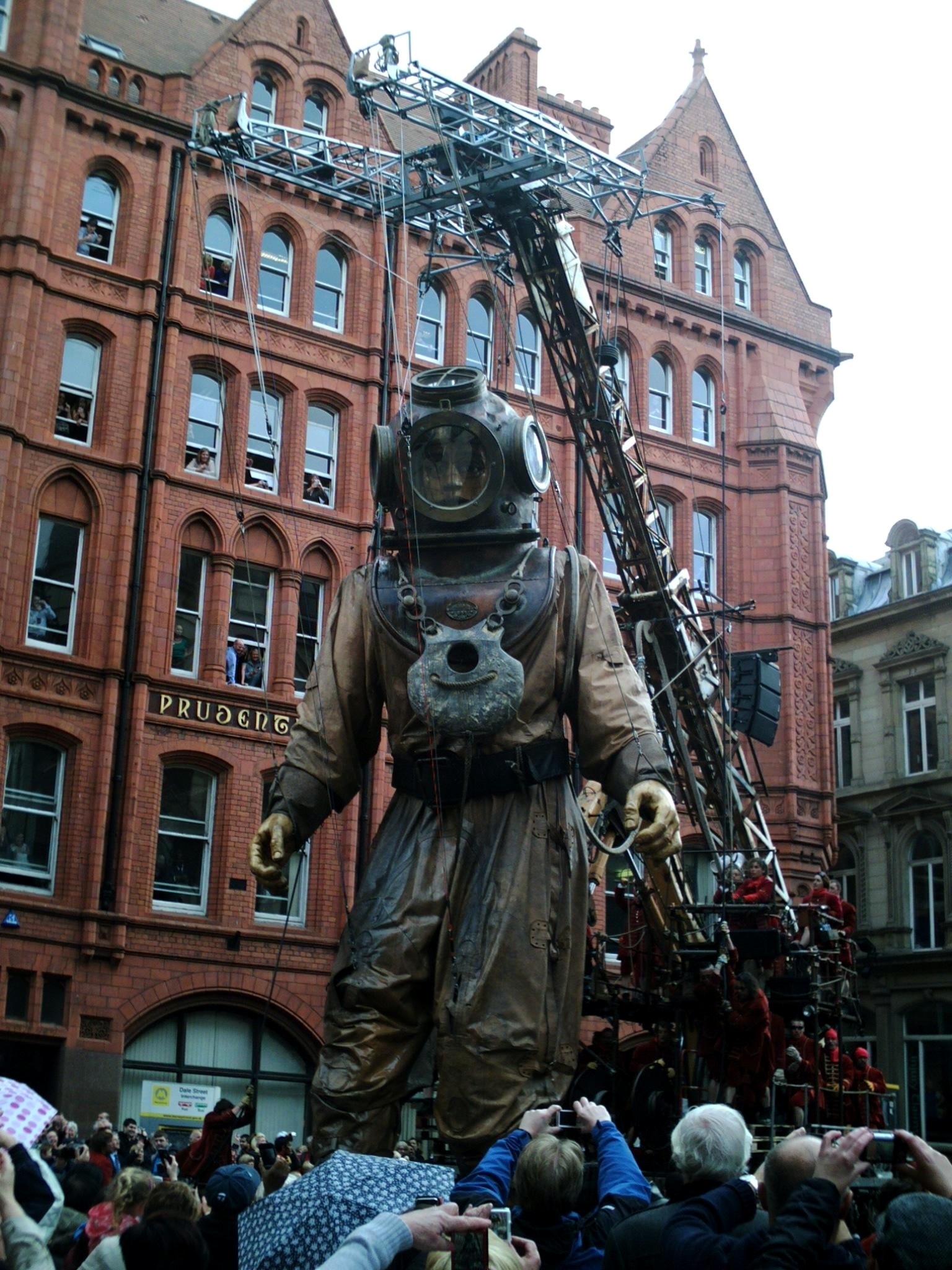 Sea Odyssey event, 2012. The "Uncle" giant turns the corner from Dale Street into Moorfields.